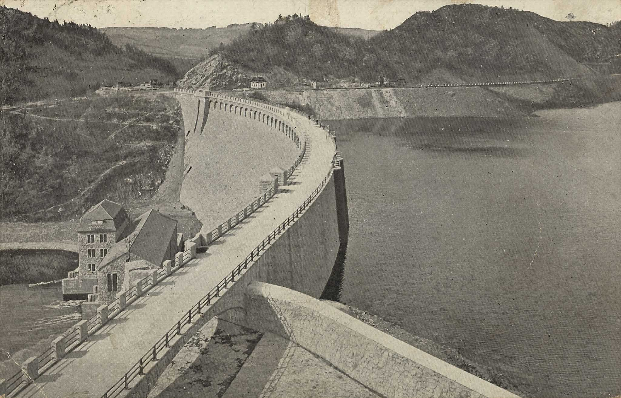 Dam, Pilchowice, Lower Silesia, Poland.